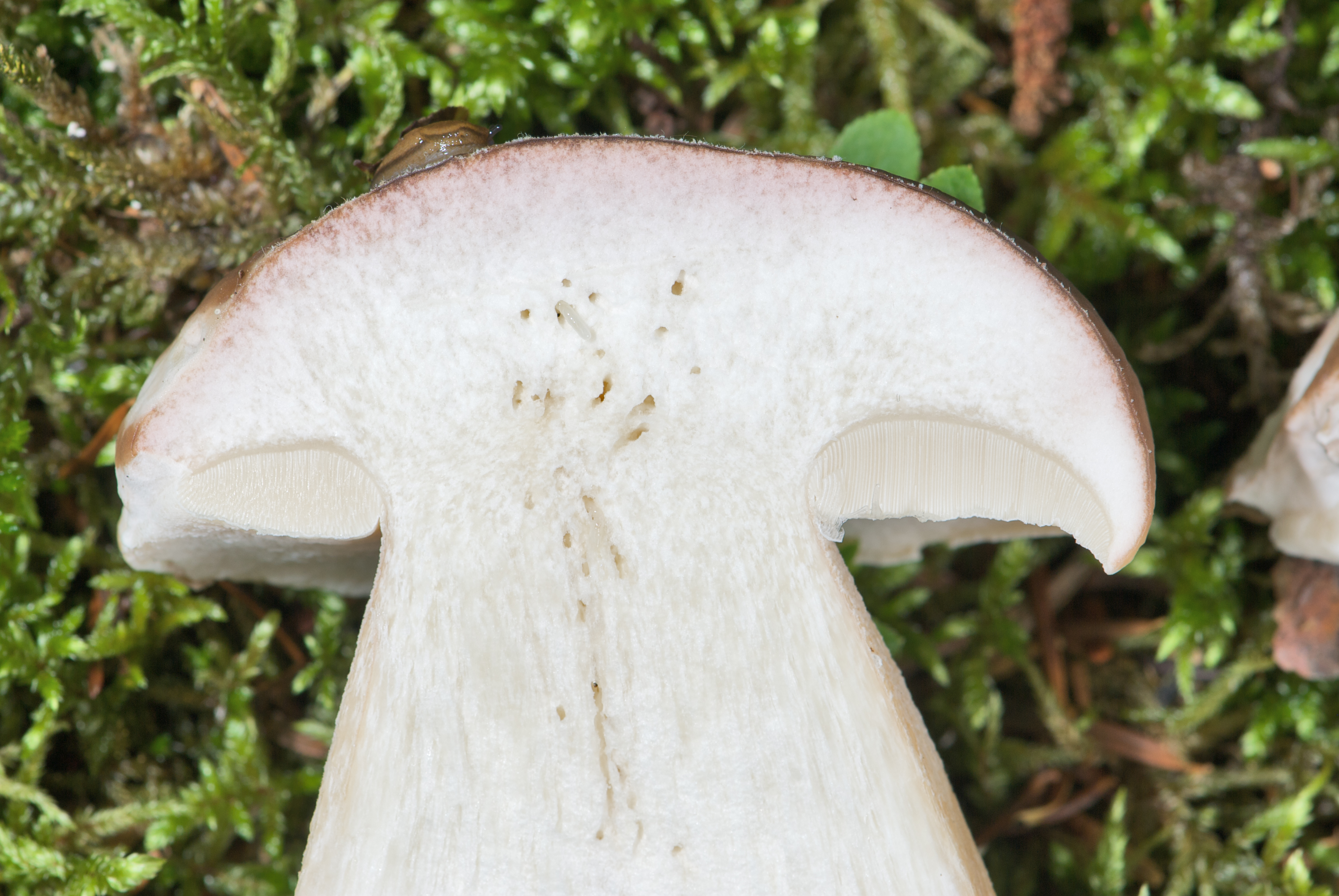 Boletus edulis is an edible mushroom in the Basidiomycete phylum. The fruiting body of the specimen in the picture has been growing for about four days and was cut apart to display the interior. A detail are the spore tubes for the production of Basidiospores.